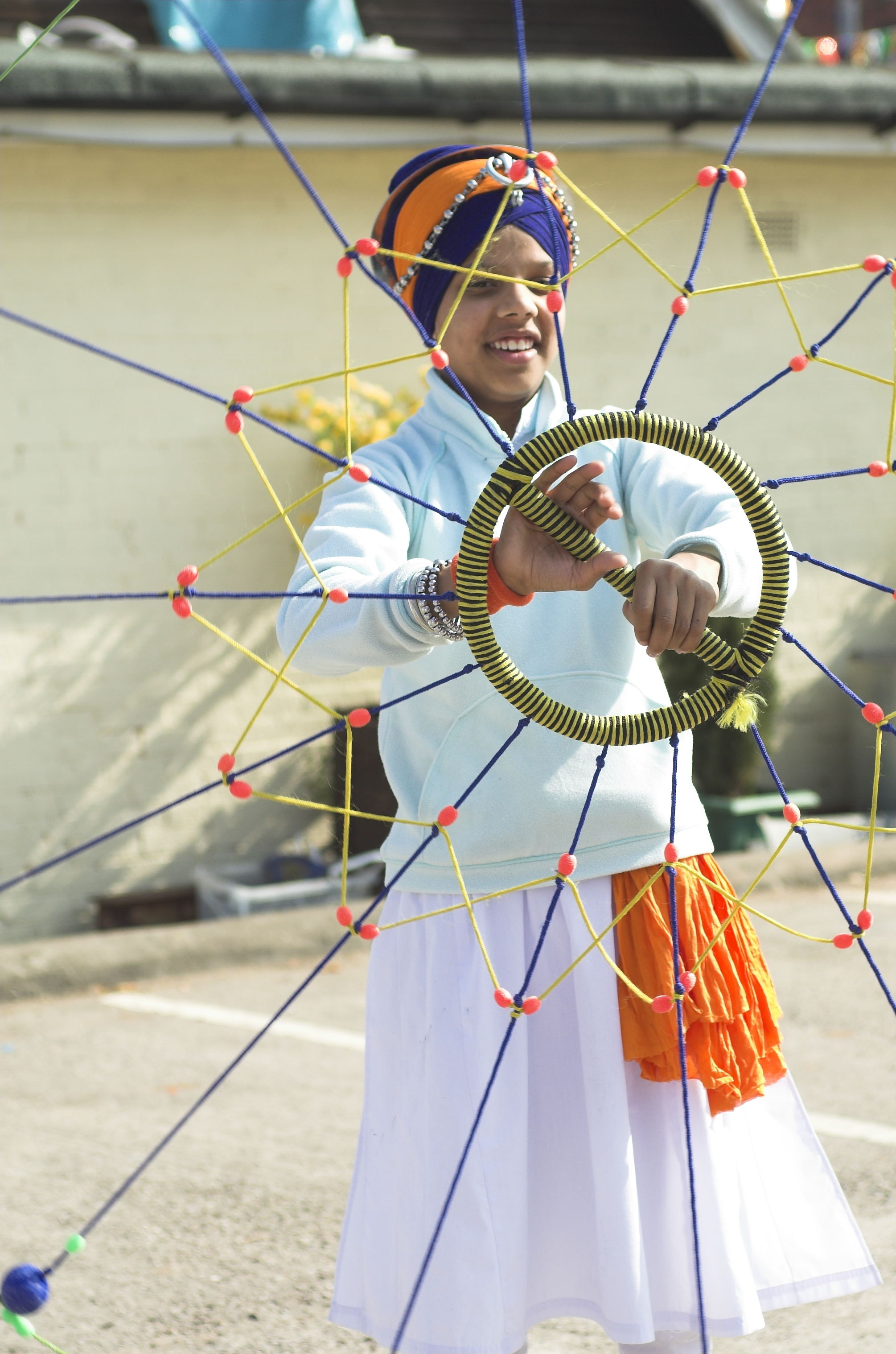 A Sikh boy participating in a gatka performance in Wolverhampton, England.